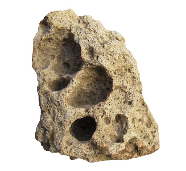 Elba island